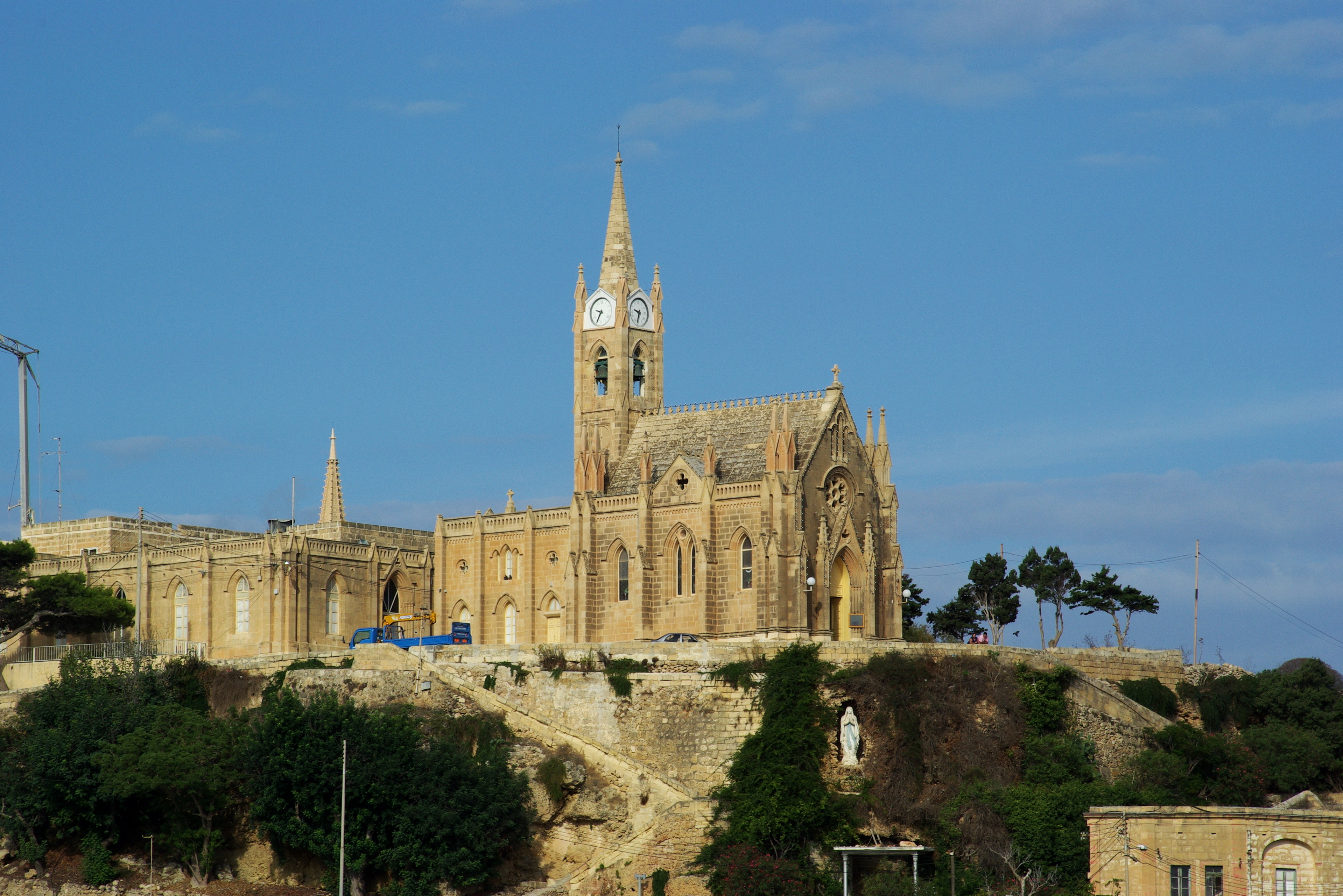 Malta, Gozo, Għajnsielem, Our lady of Lourdes church